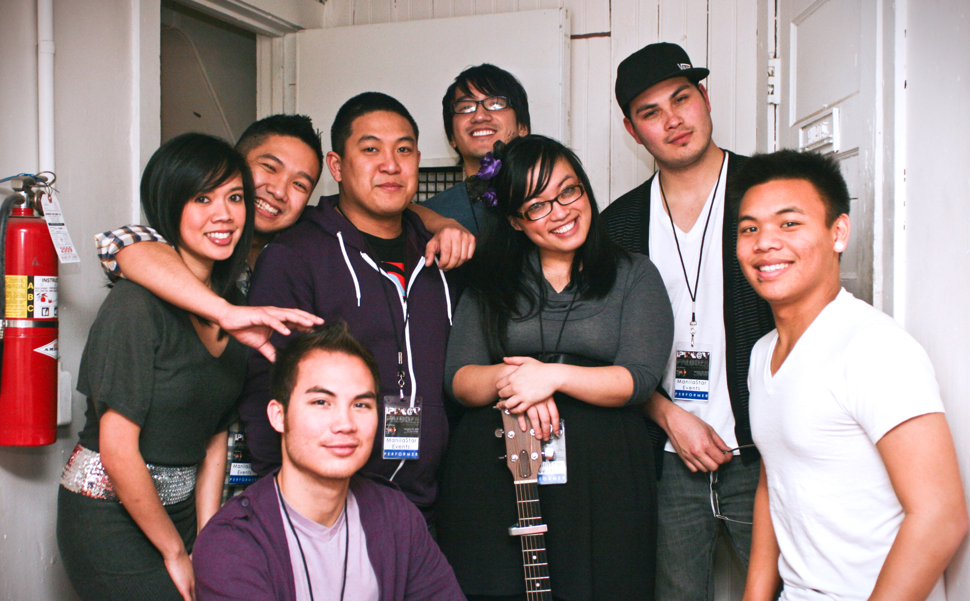 The Artists (Pin@yPalooza) AJ Rafael, Manny Garcia, the Cole Brothers, the Roxas Brothers, Ashlee Barrera, Melissa Polinar.